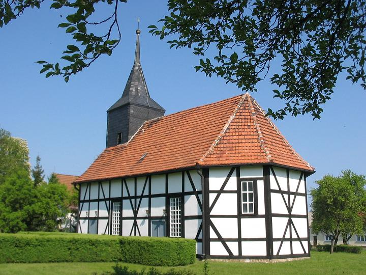 Church (built in 1793) in Dümde, a village (part) of the municipality Nuthe-Urstromtal in Brandenburg, Germany.